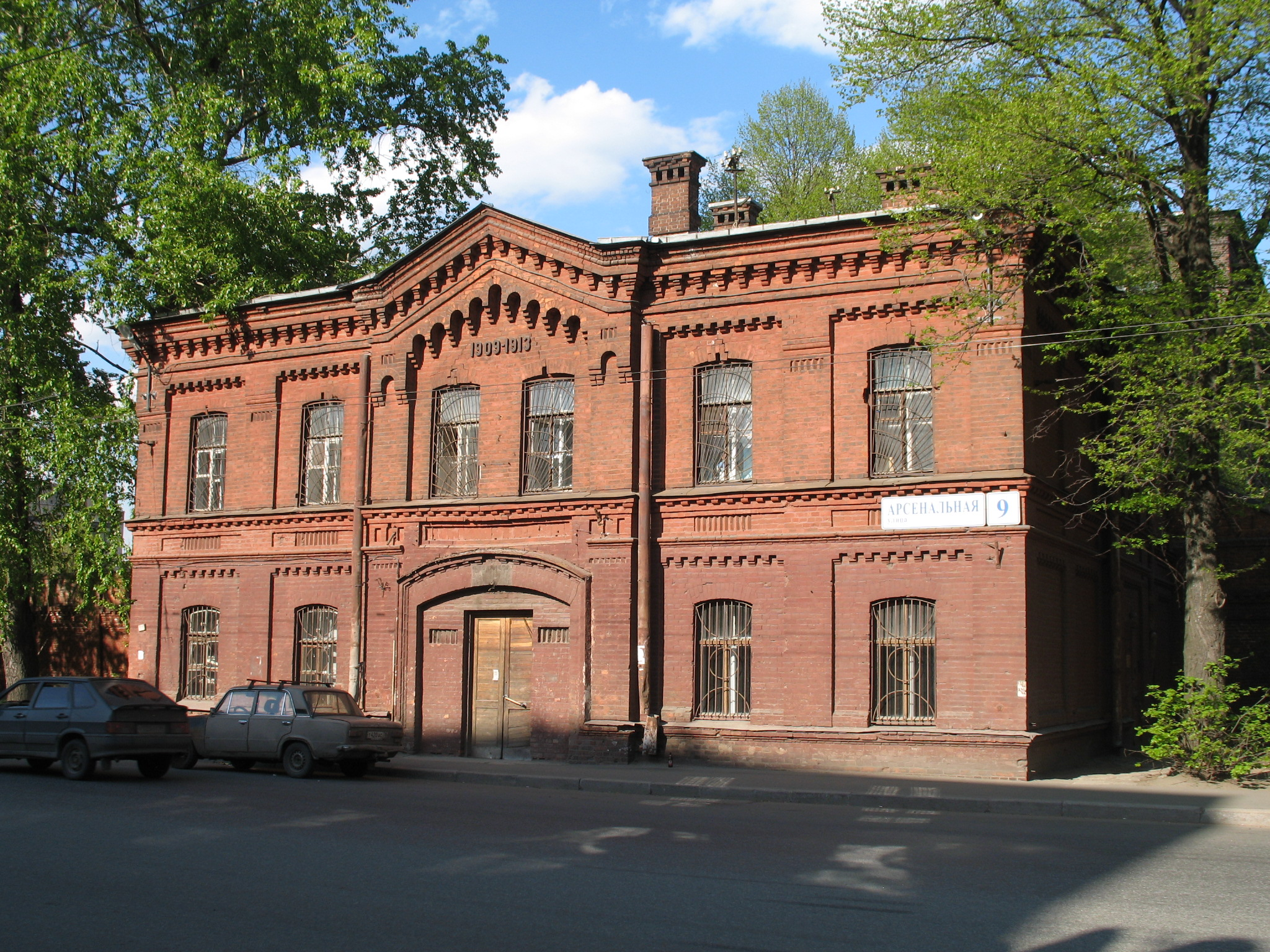 the photo of the St Petersburg Psychiatric Hospital of Specialized Type with Intense Observation (the Leningrad Special Psychiatric Hospital of Prison Type of the USSR Ministry of Internal Affairs in the past)